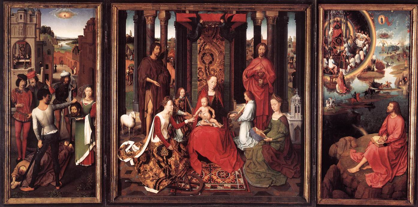 Left panel: The Beheading of John the Baptist. Center panel: Sacra Conversazione with Saints John the Baptist, John the Evangelist, Catherine of Alexandria, and Barbara. Right panel: Saint John the Evangelist on Patmos.